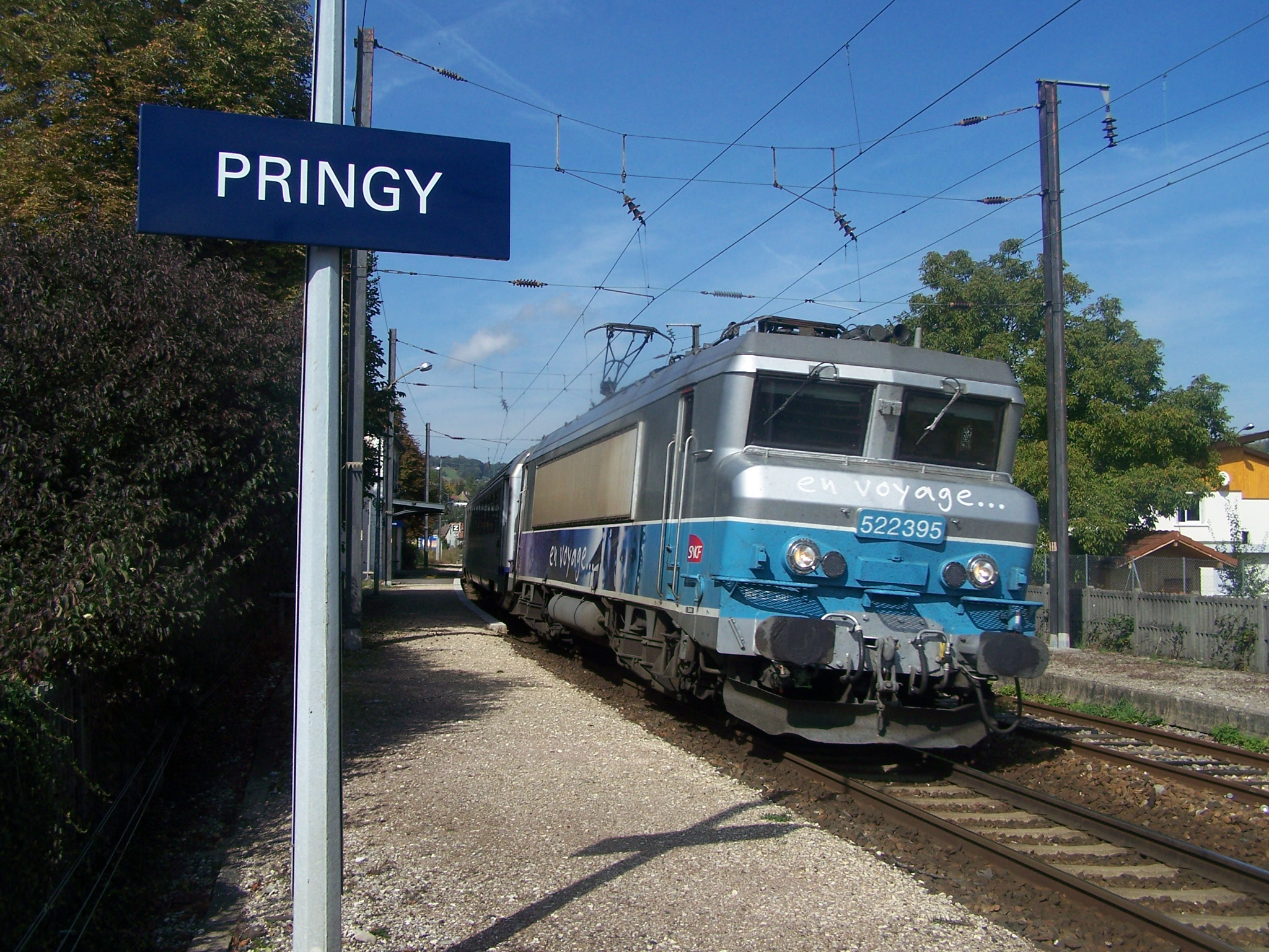 French regional train passing at Pringy station, in Haute-Savoie some minutes prior to its arrival at Annecy station.